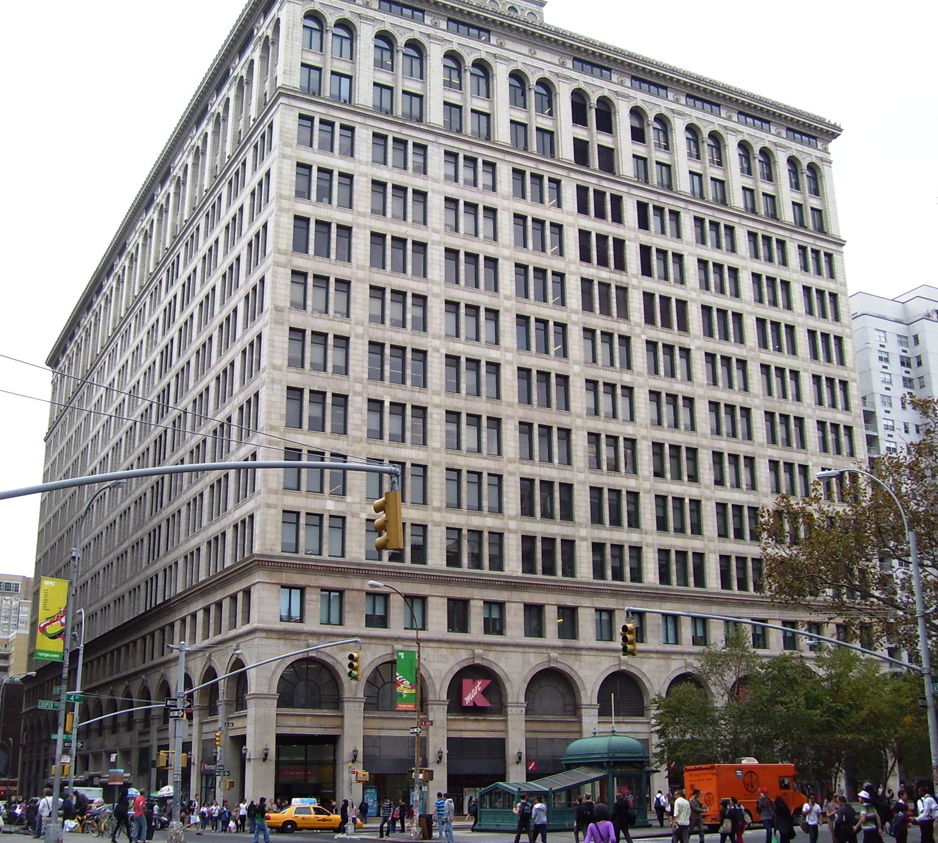 Twenty years after dry-goods merchant A.T. Stewart died, the John Wanamaker Company purchased his gigantic emporium on 9th Street between Broadway and Lafayette Street in lower Manhattan, Mew York City, near Astor Place. In 1902, the built an annex, almost equally gigantic, and connected the two buildings with a skyway. The original building burned down, and is now an apartment buiding, but the Wanamaker Annex building still stands, used as an office building, with a Kmart on the ground floor and basements. The address of the east end of the full-block building (seen here) is 499 Lafayette Street, while the west end is 770 Broadway The view here is from Astor Place near the Cooper Union Foundation Building. (source: Museum of the City of New York)